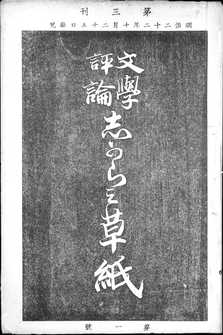 Cover of the first issue of Shigarami sōshi by Mori Ōgai and others